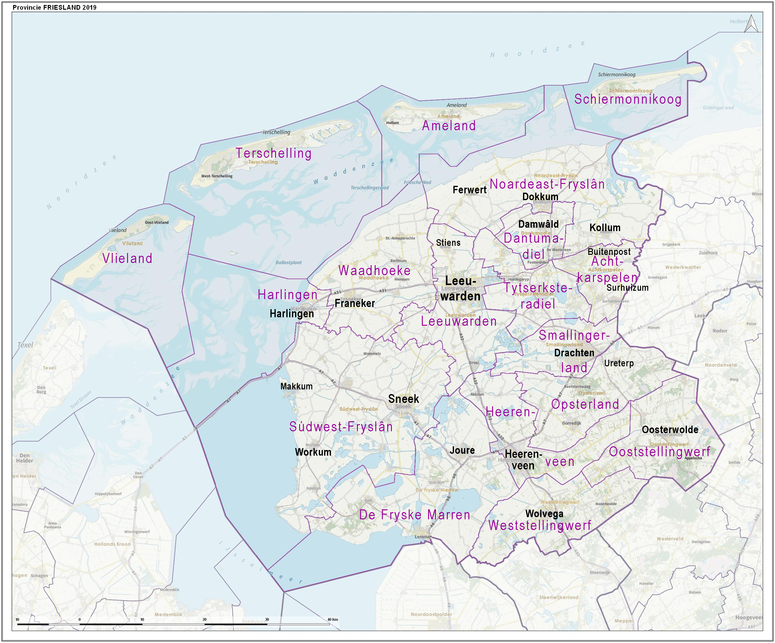 Overview map of the province, including municipal borders, largest places and major infrastructure.